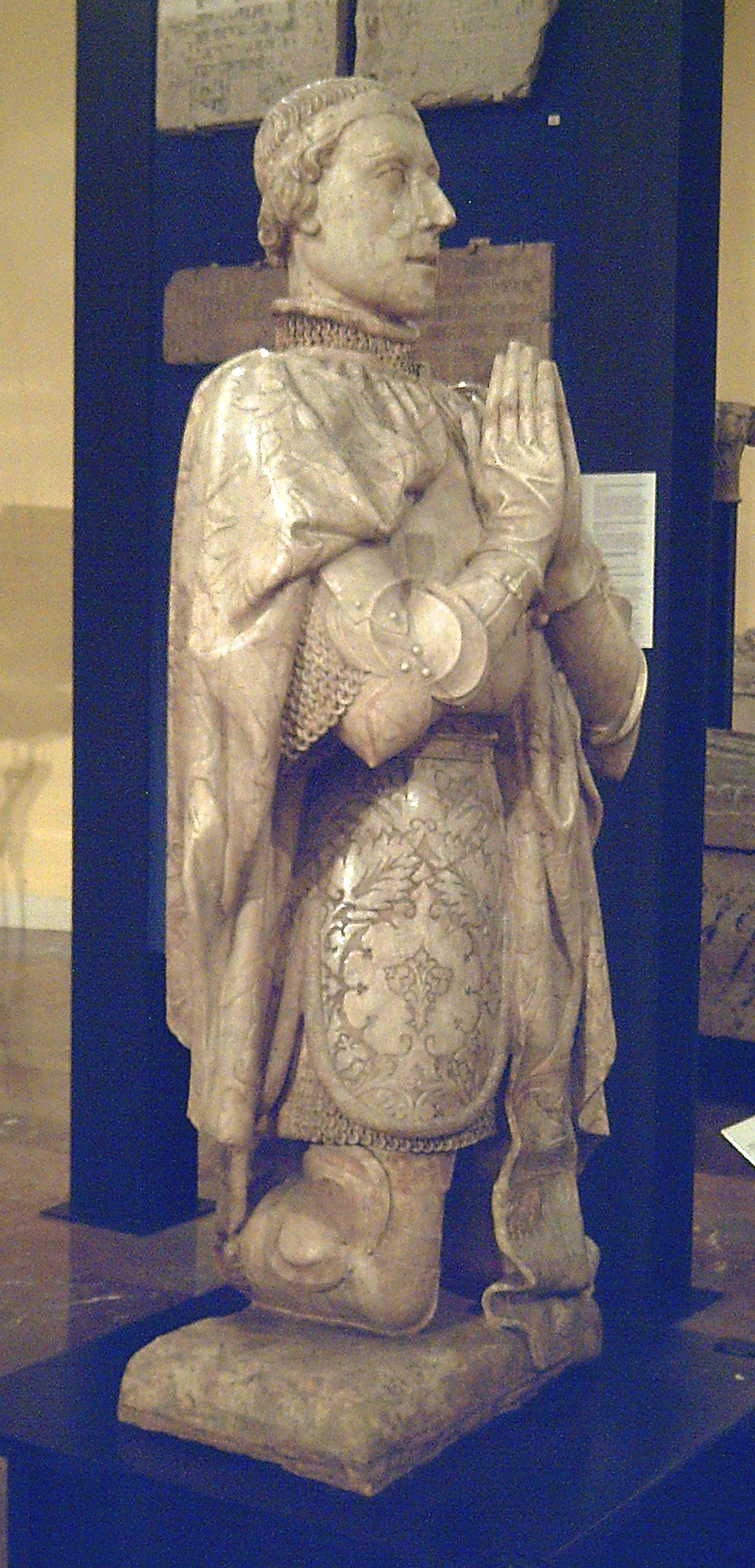 Praying statue of Peter I of Castile.